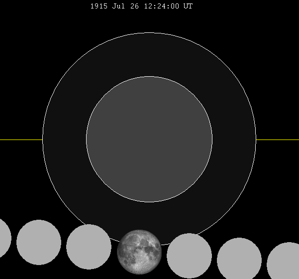 =lunar eclipse chart of moon's path through the earth's shadow. thumb